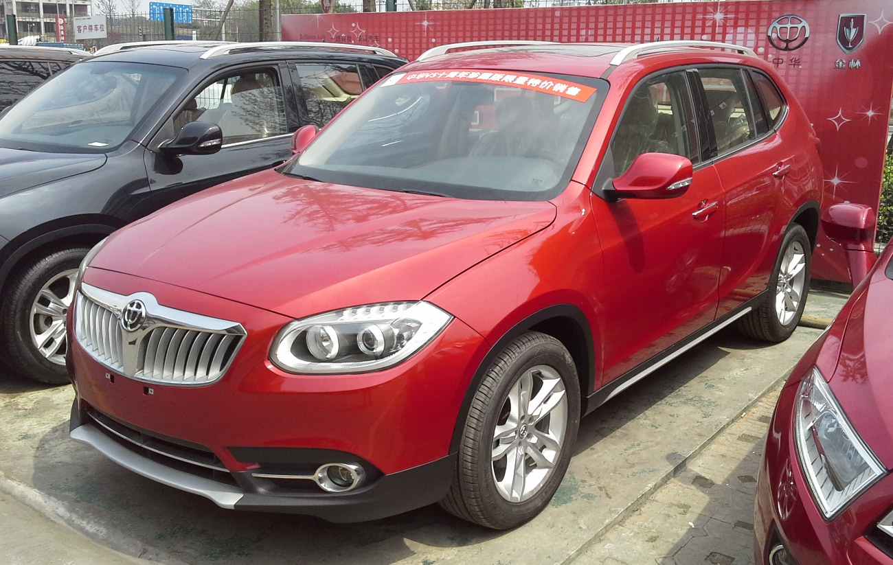 Brilliance V5 photographed in Chengdu, Sichuan province, China.